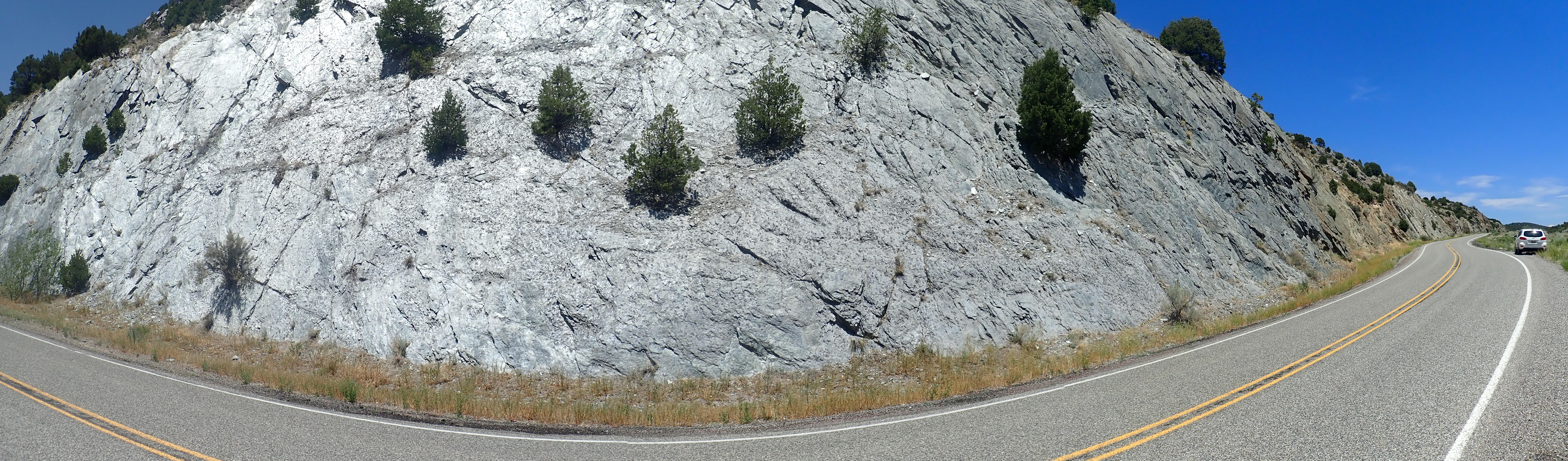 This image shows a road cut in the muscovite (mica) schist of the Vadito Group along the highay from Dixon to Picuris Pueblo, New Mexico, USA. The image was taken at midday on the summer solstice, and the parallel layers of muscovite in the surface reflect the sunlight to create the illusion of a metal wall. This image has not been digitally manipulated except to stitch three individual exposures into a panorama.